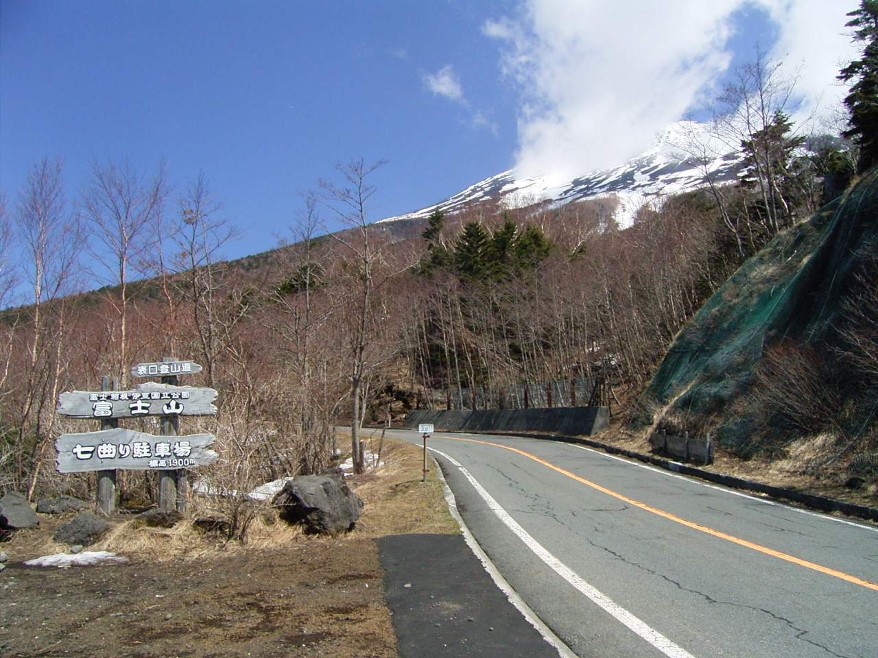 road to Mt.Fuji